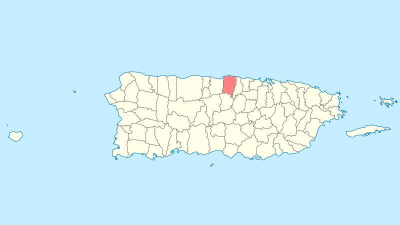 Municipal locator of Puerto Rico